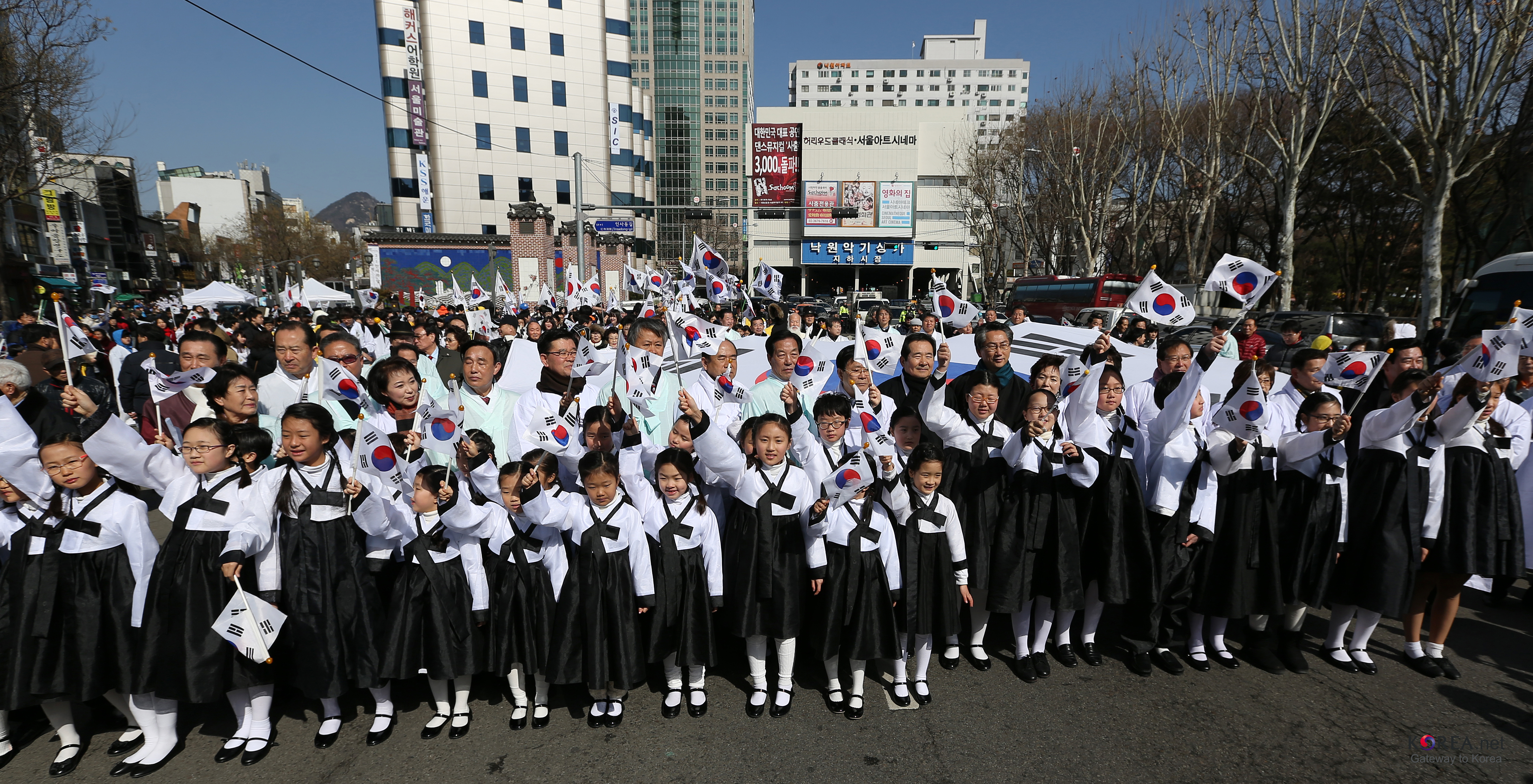 The 94th March First Independence Movement Day Jongnon, Seoul 2013.03.01. Ministry of Culture, Sports and Tourism Korean Culture and Information Service Jeon Han 제94주년 3.1절 기념 행사 종로, 서울 문화체육관광부 해외문화홍보원 코리아넷 전한